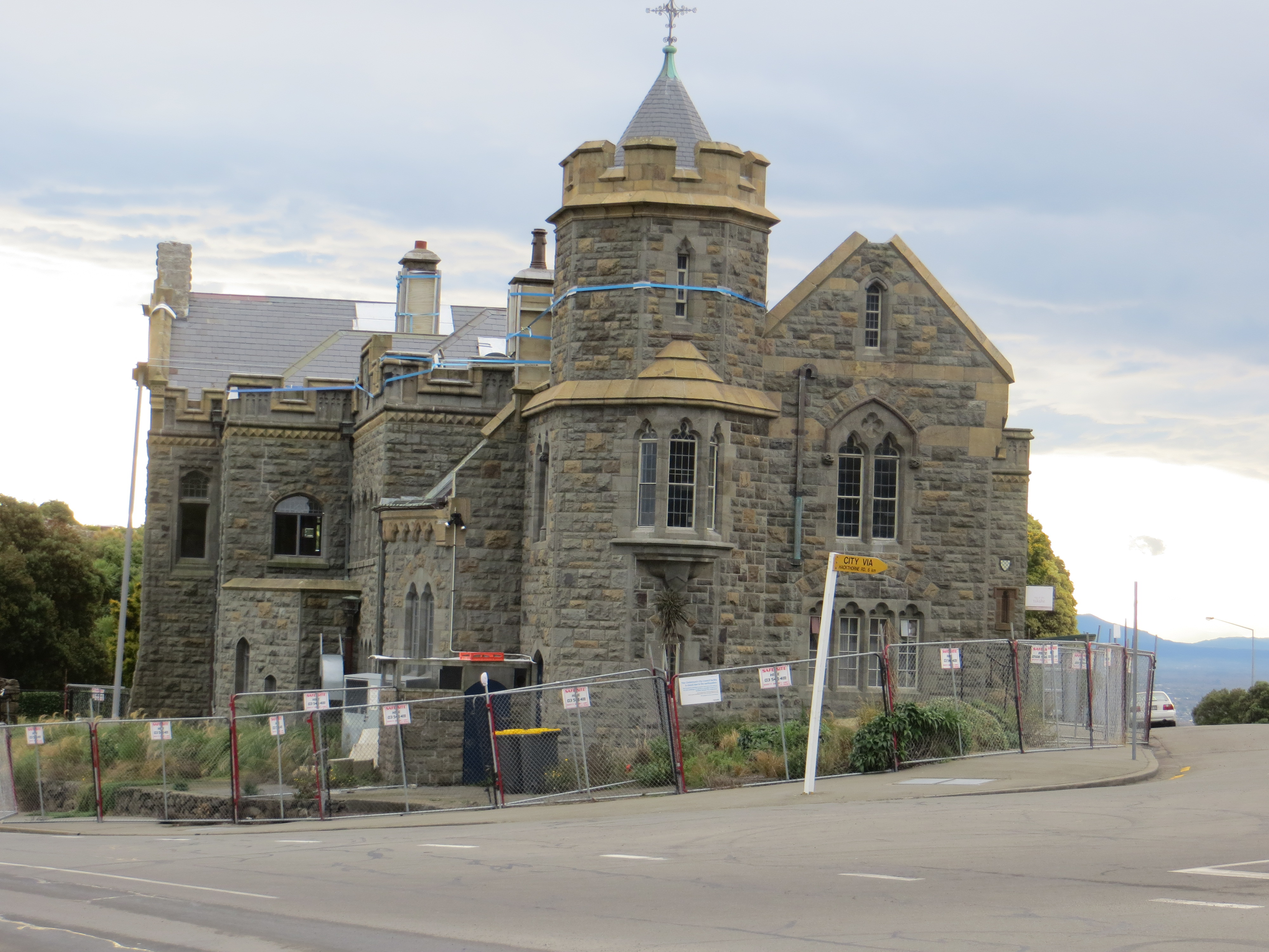 view from corner of Dyer's Pass Rd and Pentre Ter.